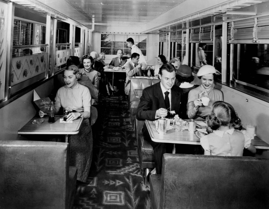 Photo of the lower level of the Pullman-built all dome lounge car of the Milwaukee Road prior to its being placed in service.